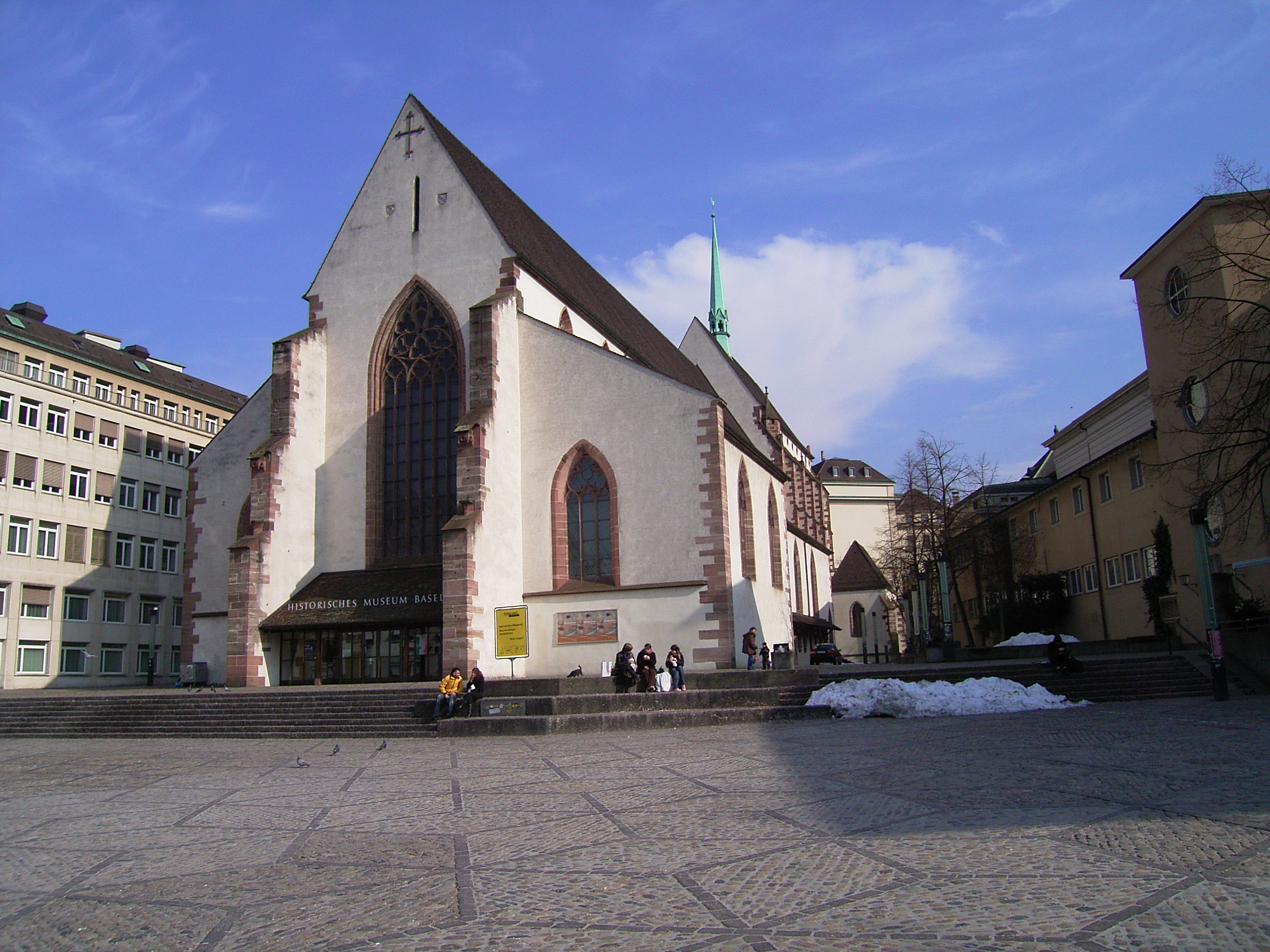 Basel Museum of History